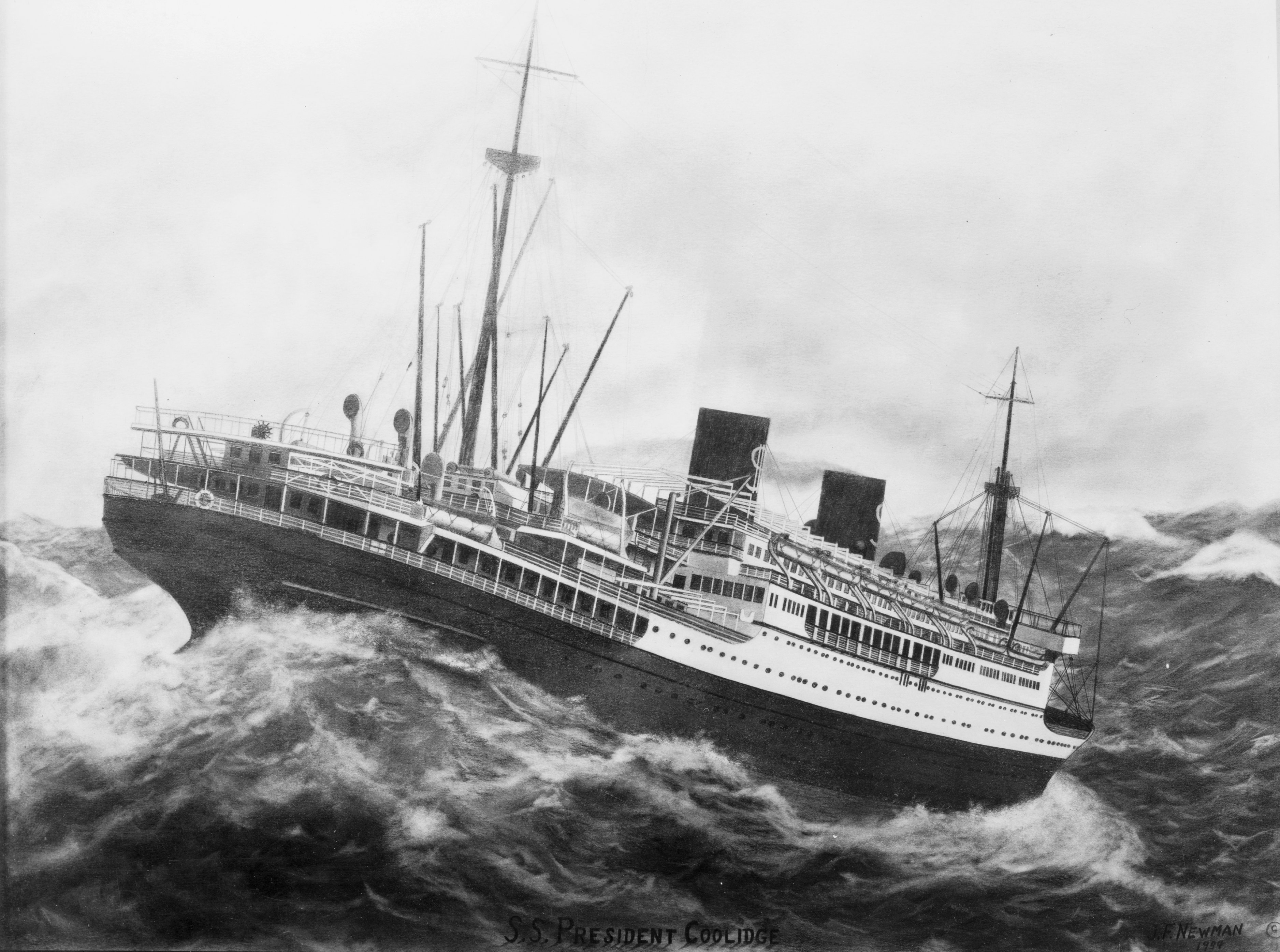 The steamship SS President Coolidge, built in Virginia by Newport News Shipbuilding in 1931. Scan of an artwork by J. F. Newman.